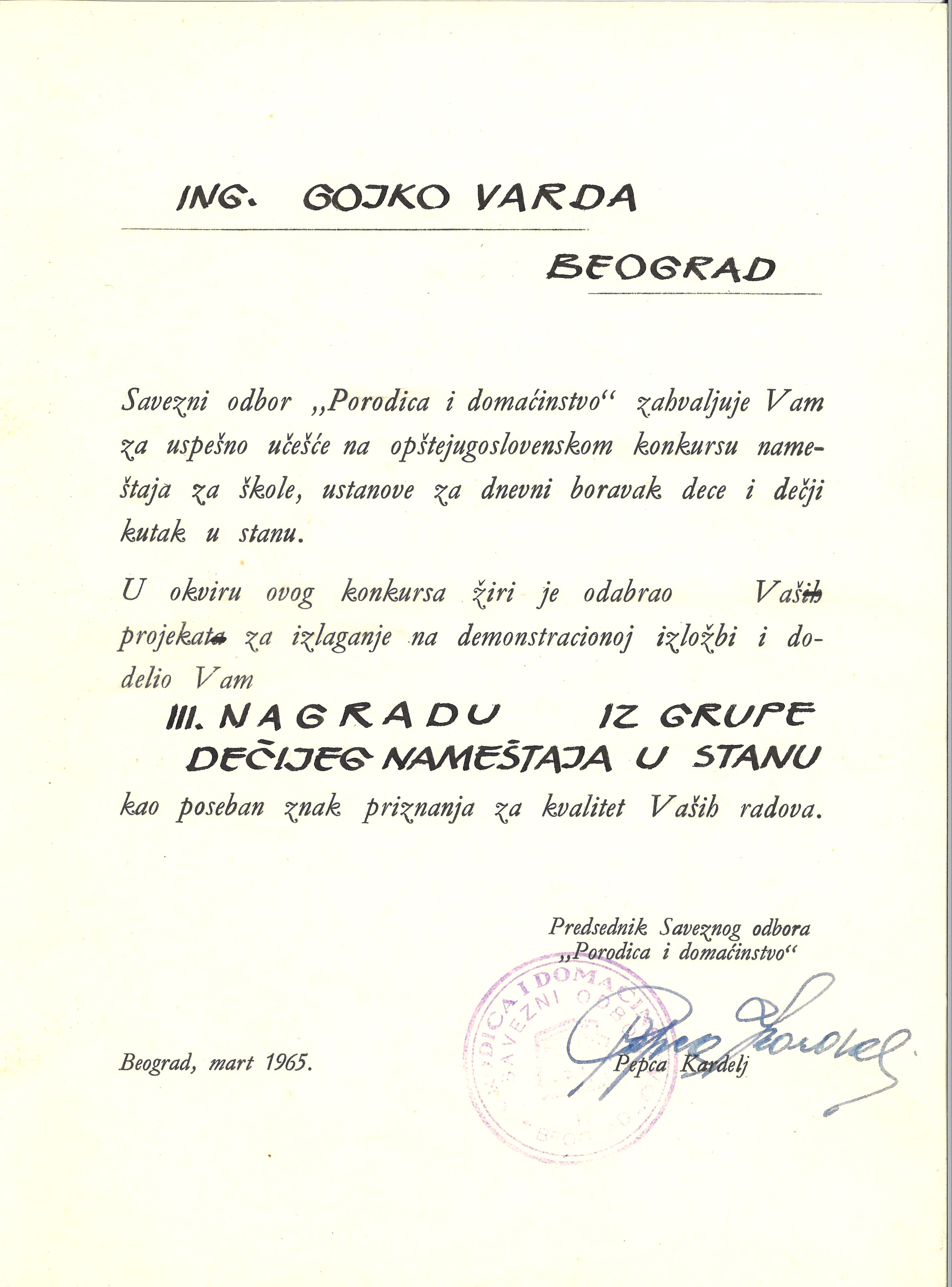 Diploma, 3rd prize from the group of children's furniture in the apartment, Gojko Vardiawas awarded by the Savezni odbor Porodica i domaćinstvo in 1965